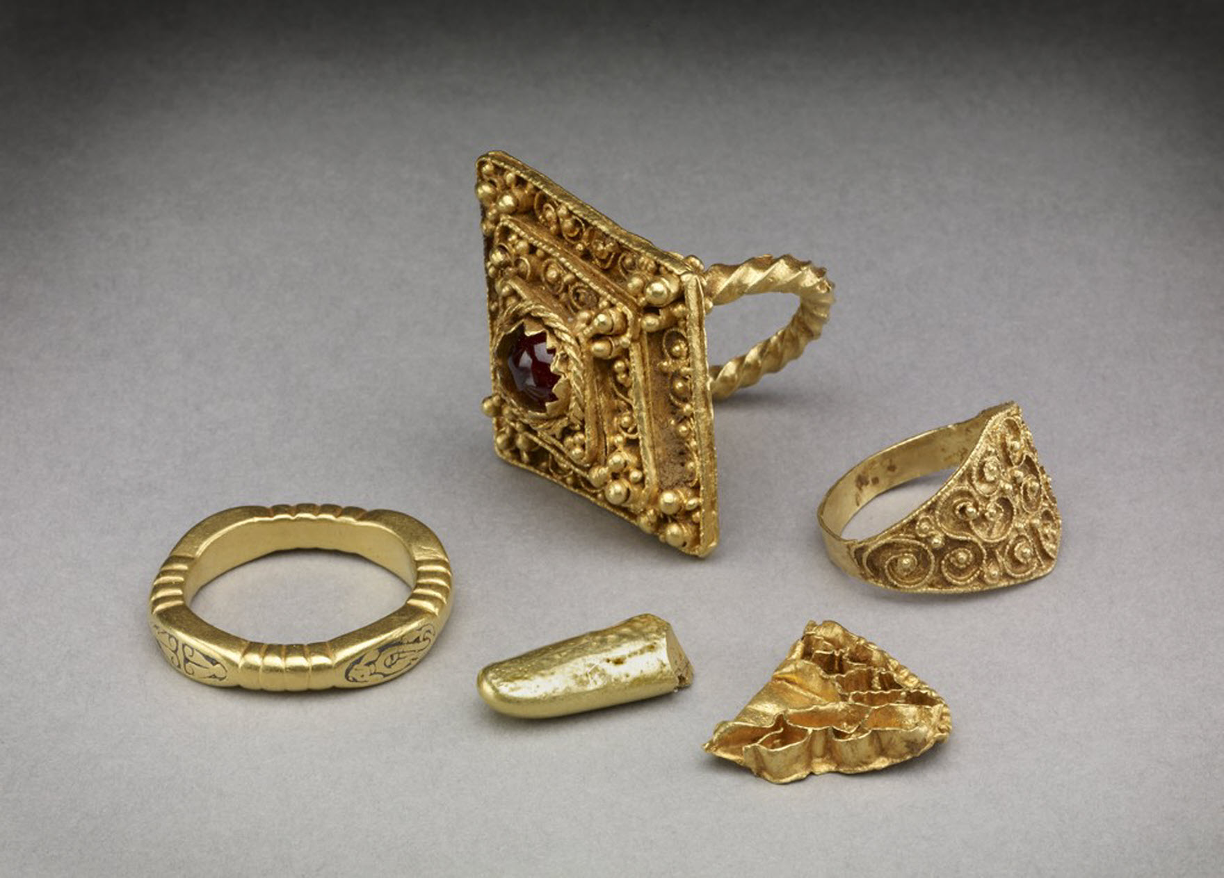 Hoard of Angl-Saxon rings found at Leeds, West Yorkshire.